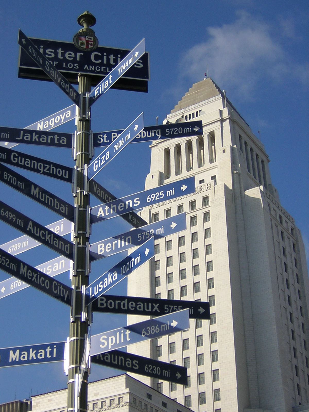 This is a pole in the downtown Los Angeles indicating directions and distance to the Sister Cities of LA.